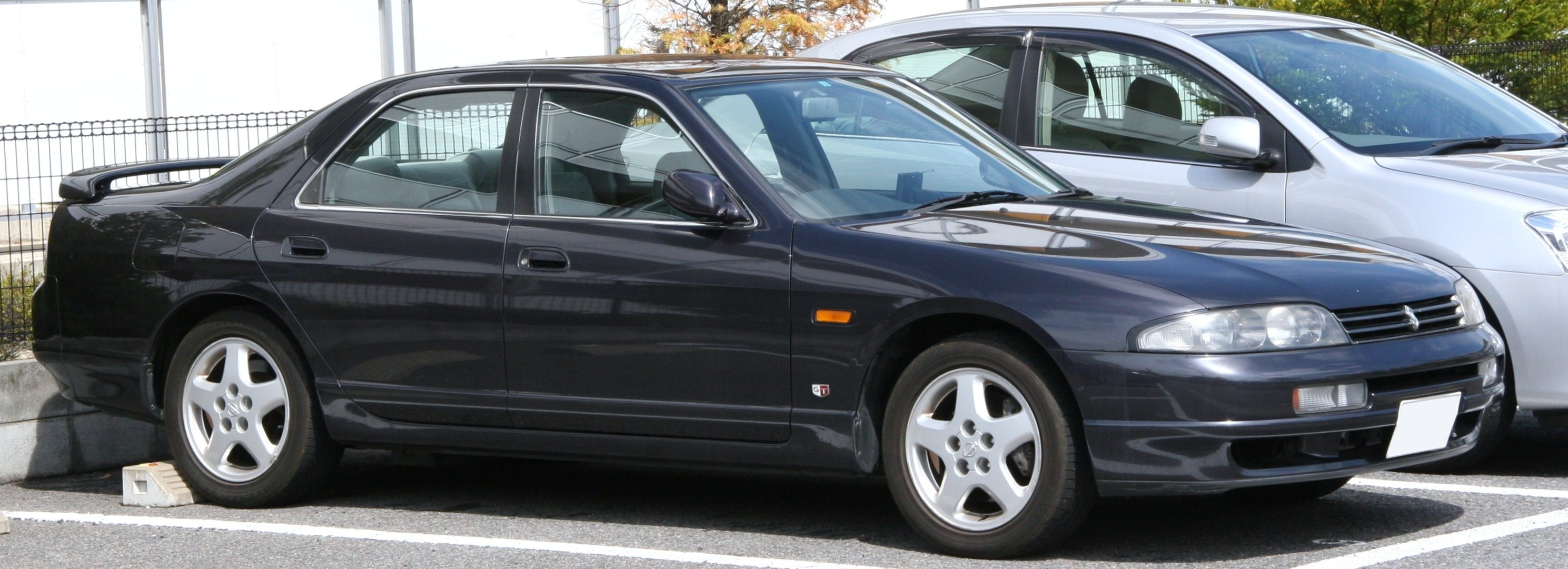 Nissan Skyline Sedan